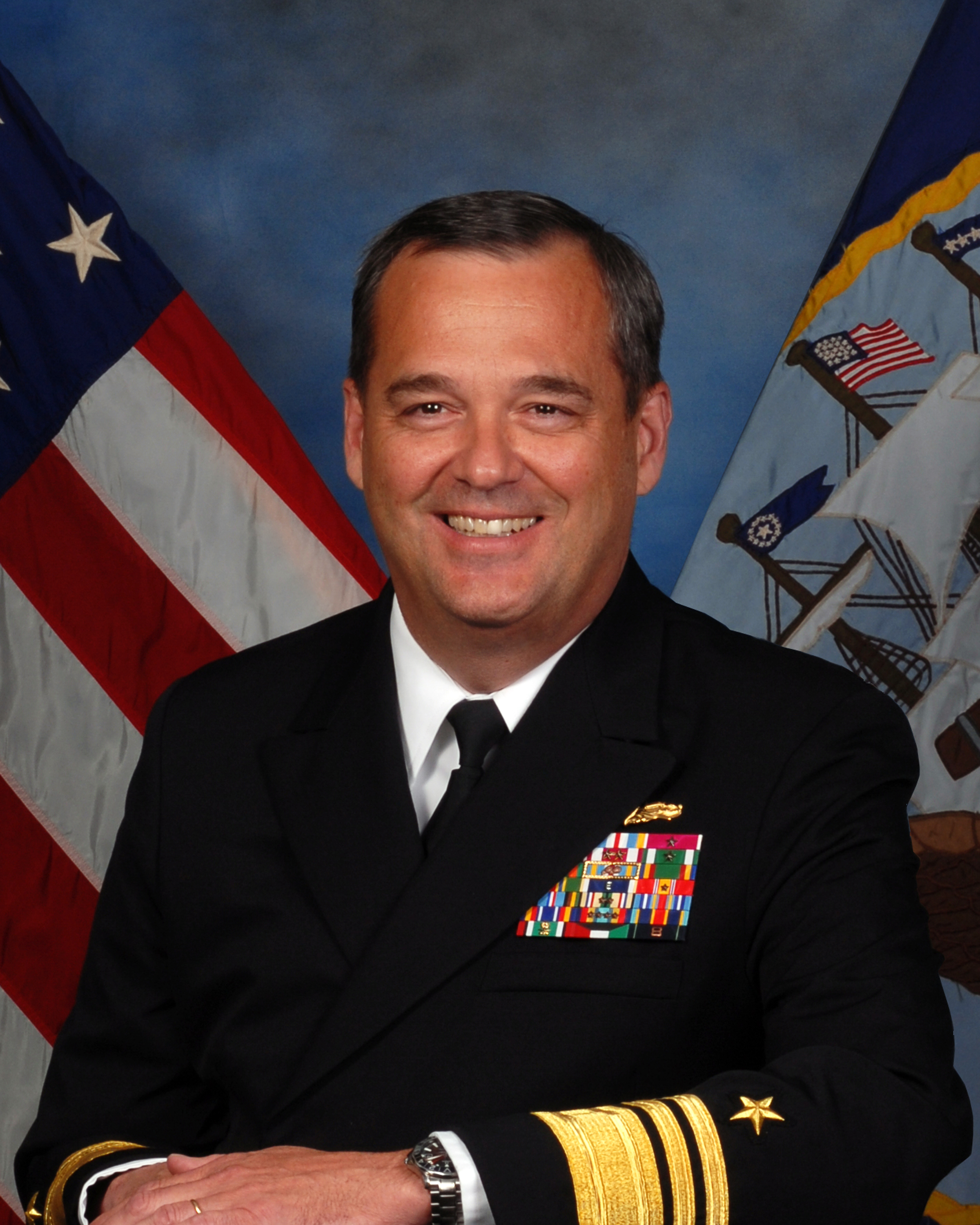 The official photograph of Vice Admiral (VADM) Thomas H Copeman, Commander Naval Surface Forces, U.S. Pacific Fleet (COMNAVSURFPAC) / Commander Naval Surface Force (COMNAVSURFOR)